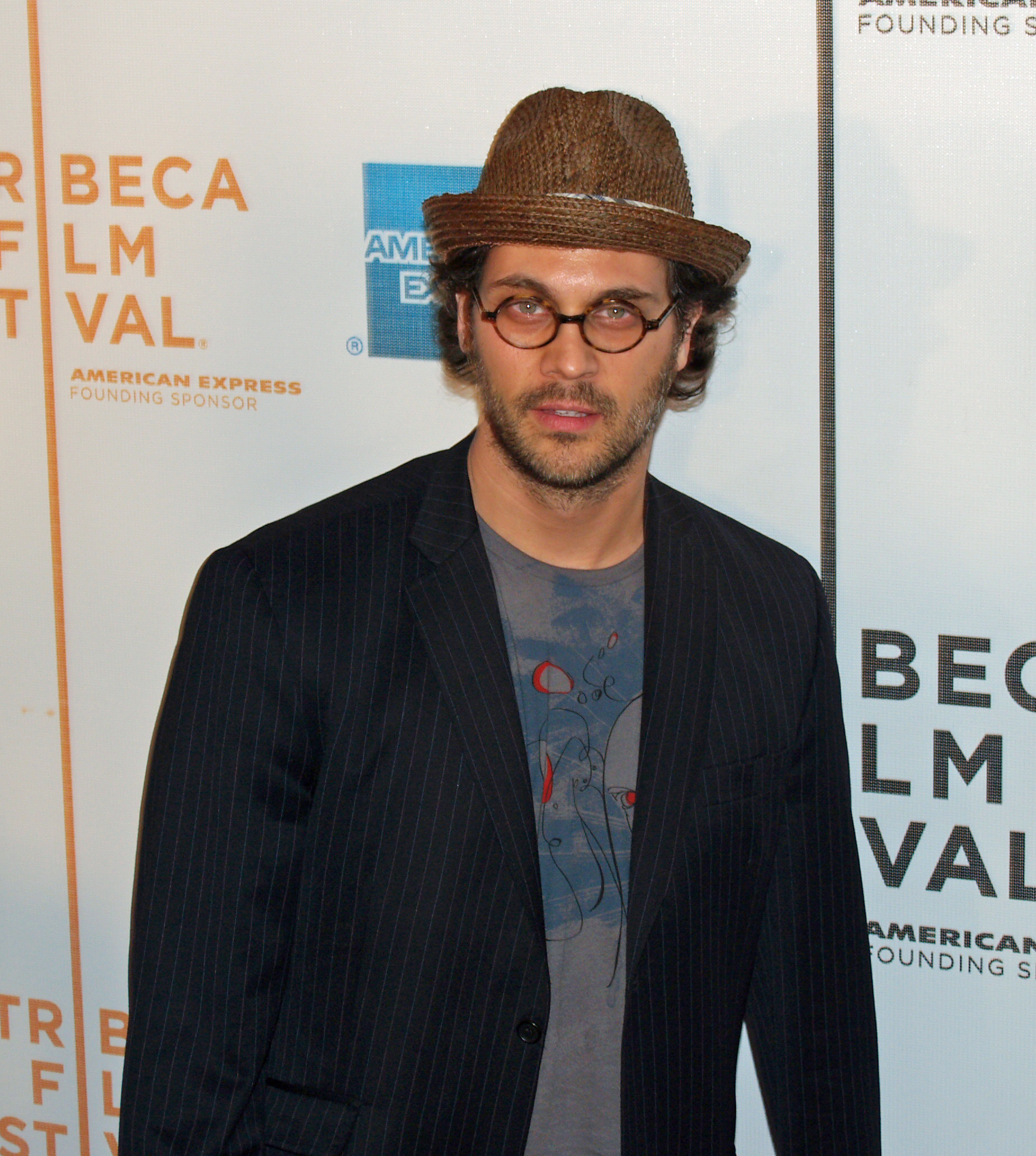 Todd Stashwick by David Shankbone